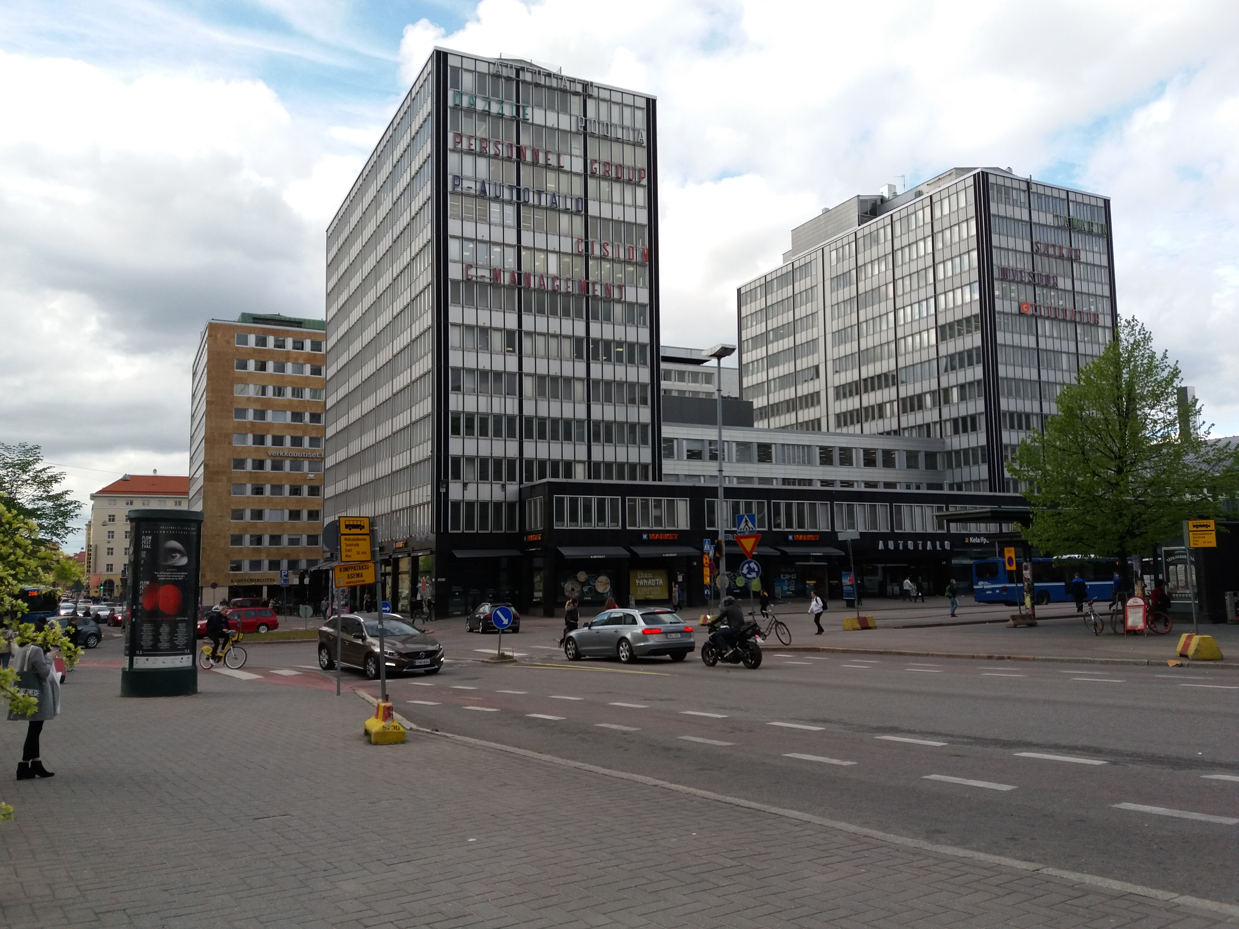 Autotalo building in Helsinki city center in 2017